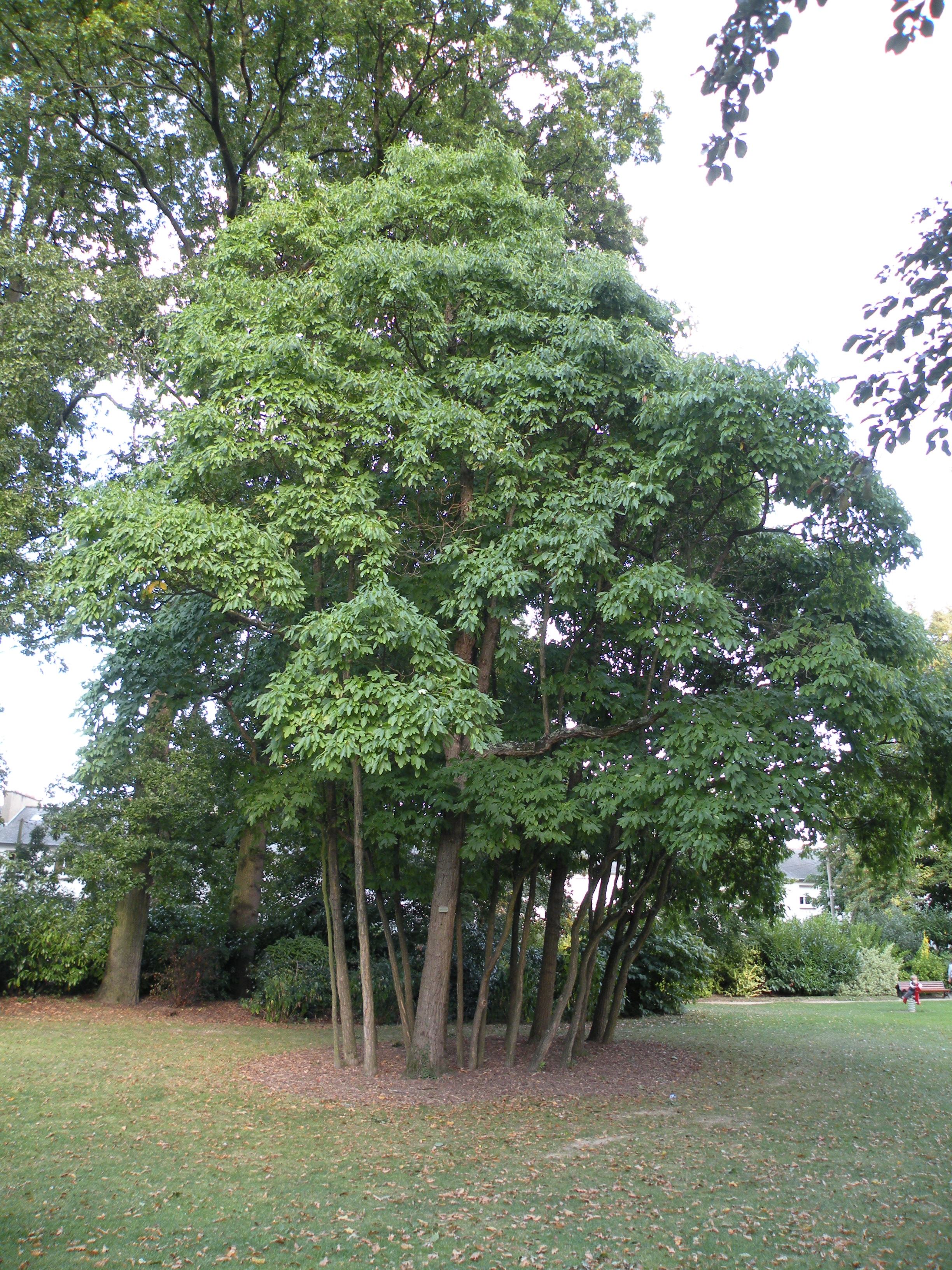 Sassafras albidum in Oberthür park in Rennes.